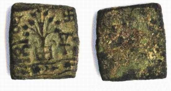 Coin of Eran-Vidhisa, 2nd-1st century BCE